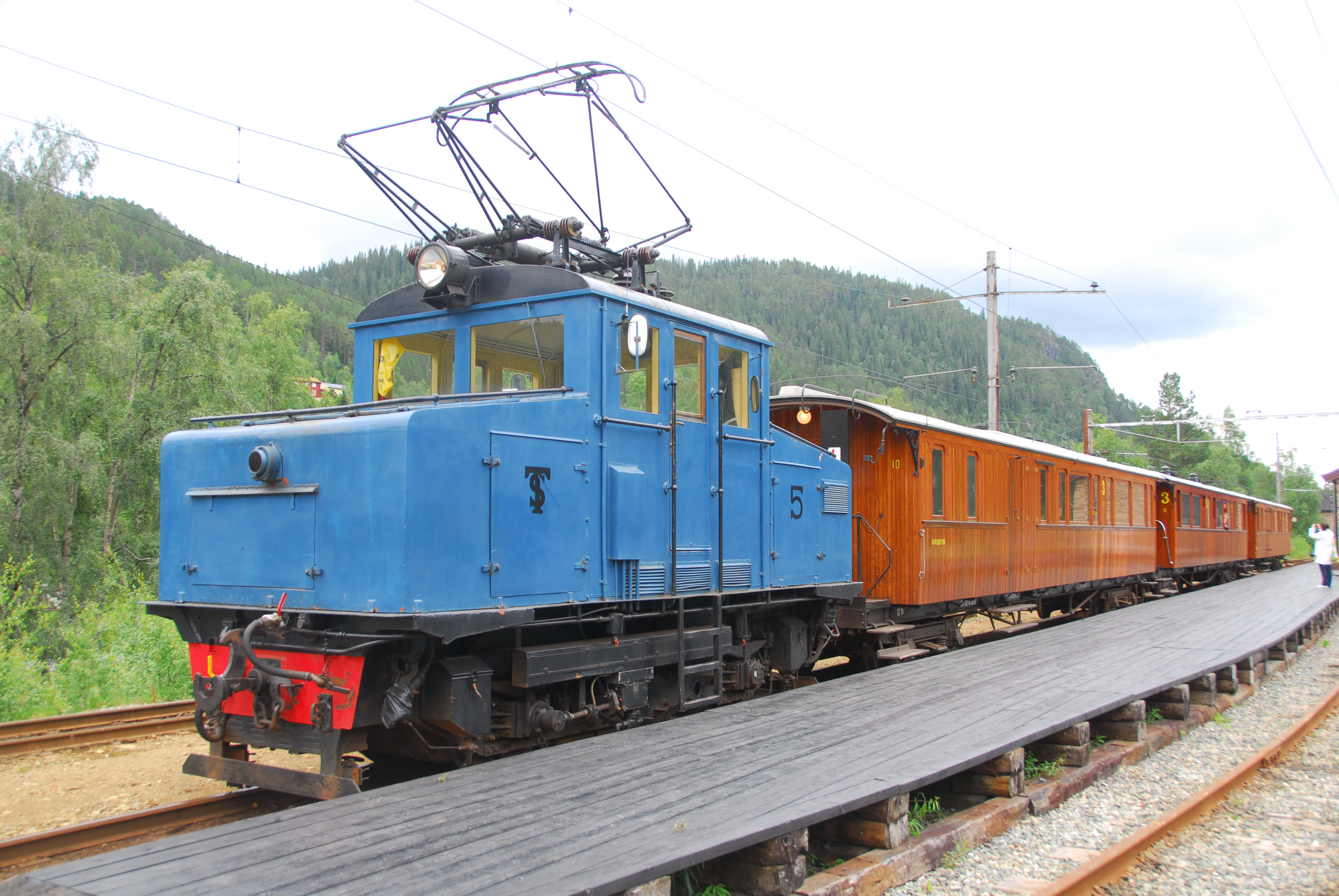 Locomotive no. 5 of Thamshavnbanen at Løkken Station, Norway.